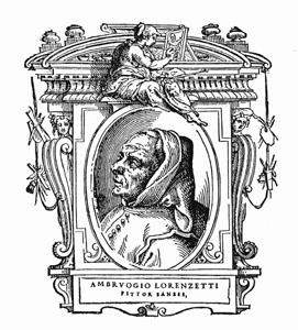 Illustratio from "Le Vite" by Giorgio Vasari, edition of 1568. For the artist portrayed see filename